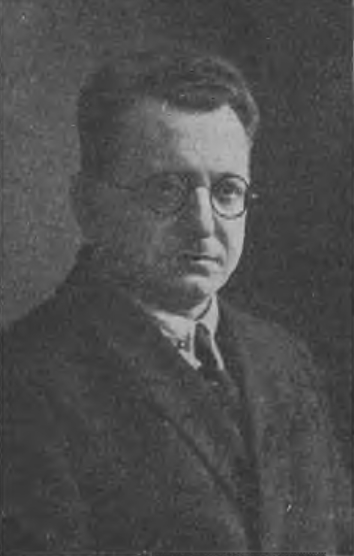 Adolf Sobota (1888–1975) – Silesian political activist, deputy to the Silesian Parliament (1922-1929).